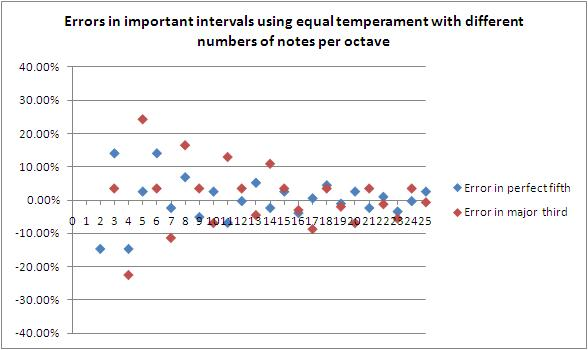 A chart of the lowest errors that can be achieved in perfect fifths and major thirds under equal temperament using different numbers of notes per octave.